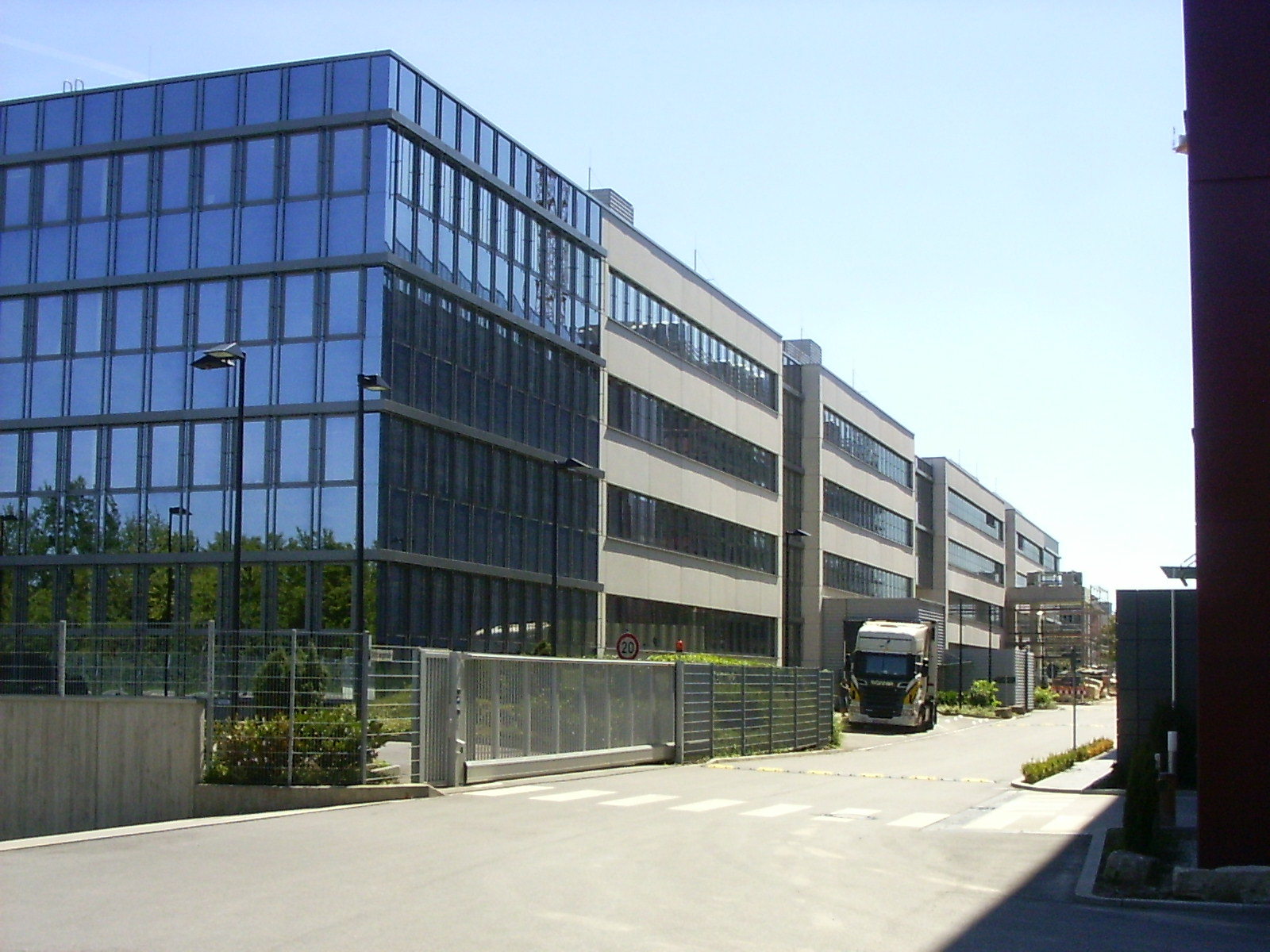 Lidl headquarters, Stiftsbergstrasse, Neckarsulm